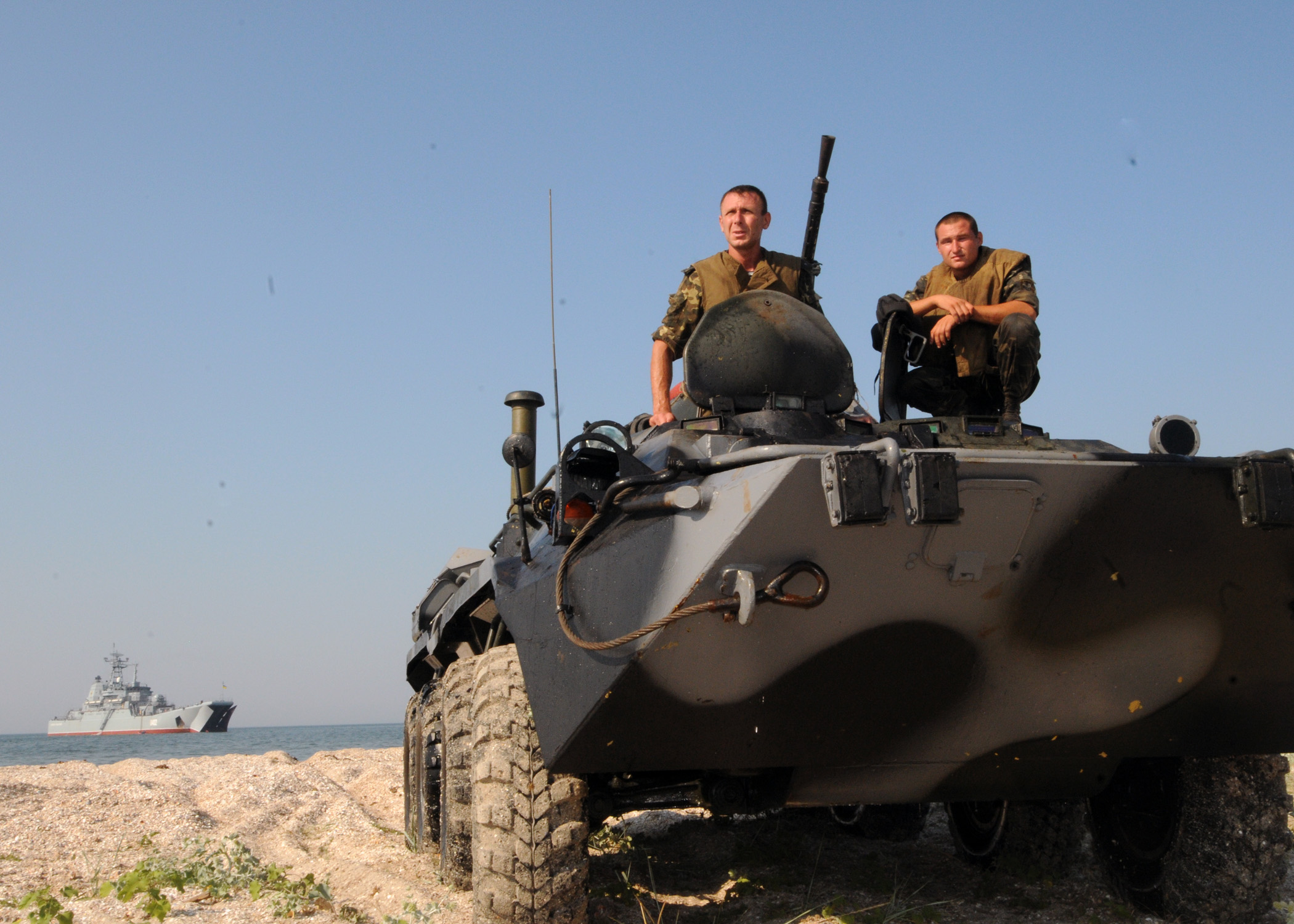 A Ukrainian BTR-80 amphibious assault vehicle from LST Konstantn Olsnanskly (U 042) comes ashore on Tendra Island during an anti-piracy exercise in the Black Sea during exercise Sea Breeze 2010 July 15, 2010. Sea Breeze is an annual multinational exercise designed to strengthen maritime partnerships in the Black Sea region; Sea Breeze 2010 included service members from Azerbaijan, Austria, Belgium, Denmark, Georgia, Germany, Greece, Moldova, Sweden, Turkey, Ukraine and the United States. (U.S. Navy photo by Mass Communication Specialist 3rd Class Kristopher Regan/Released)